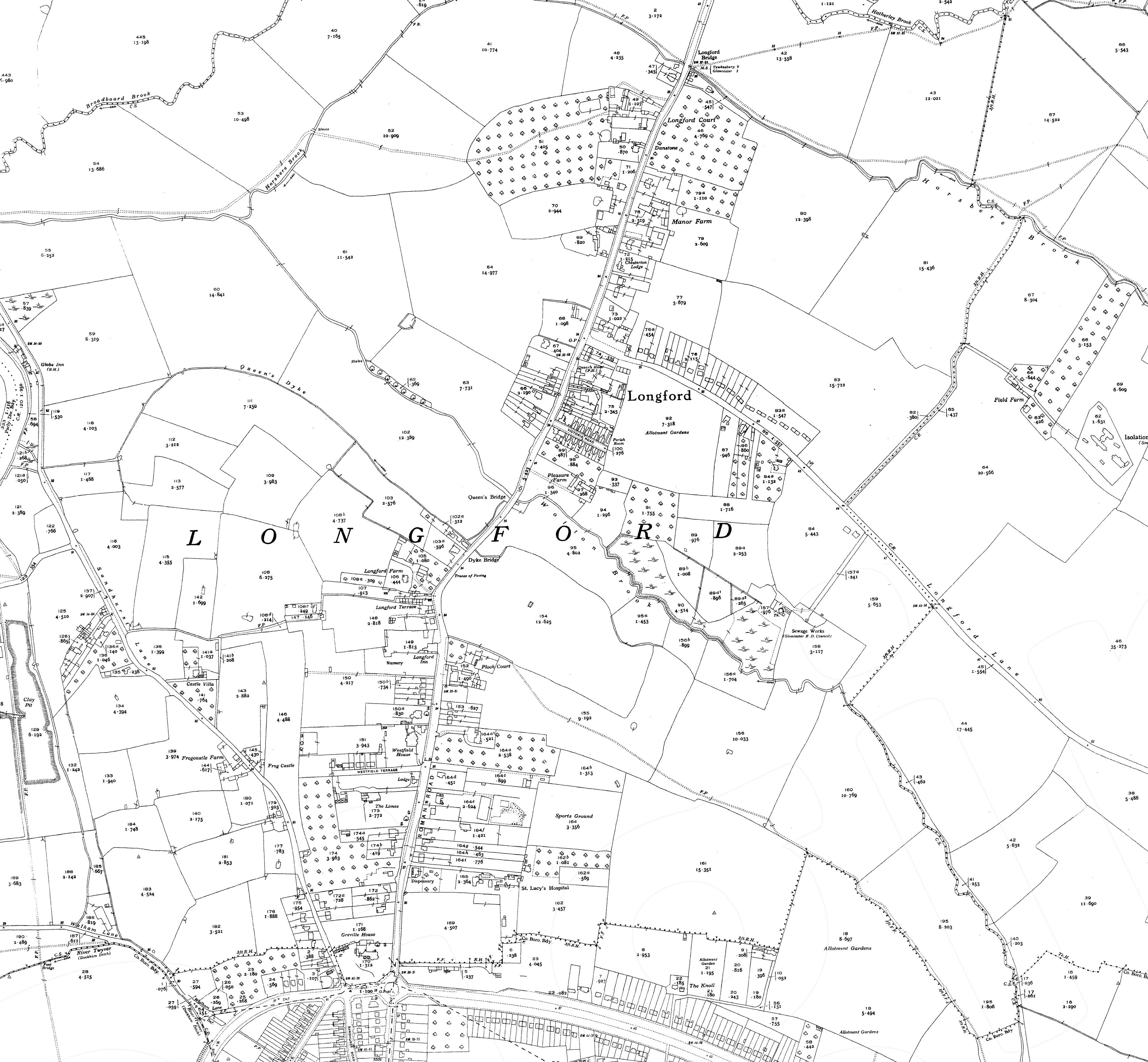 Longford, Gloucester, Ordnance Survey c.1930